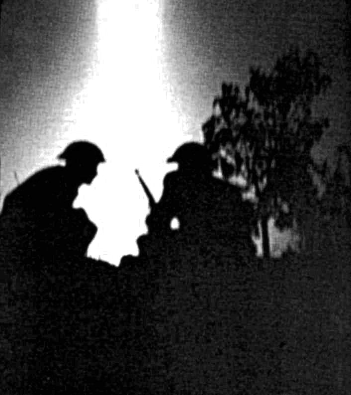 Canadian soldiers under fire near Fleury sur-Orne in the early hours of July 25, 1944